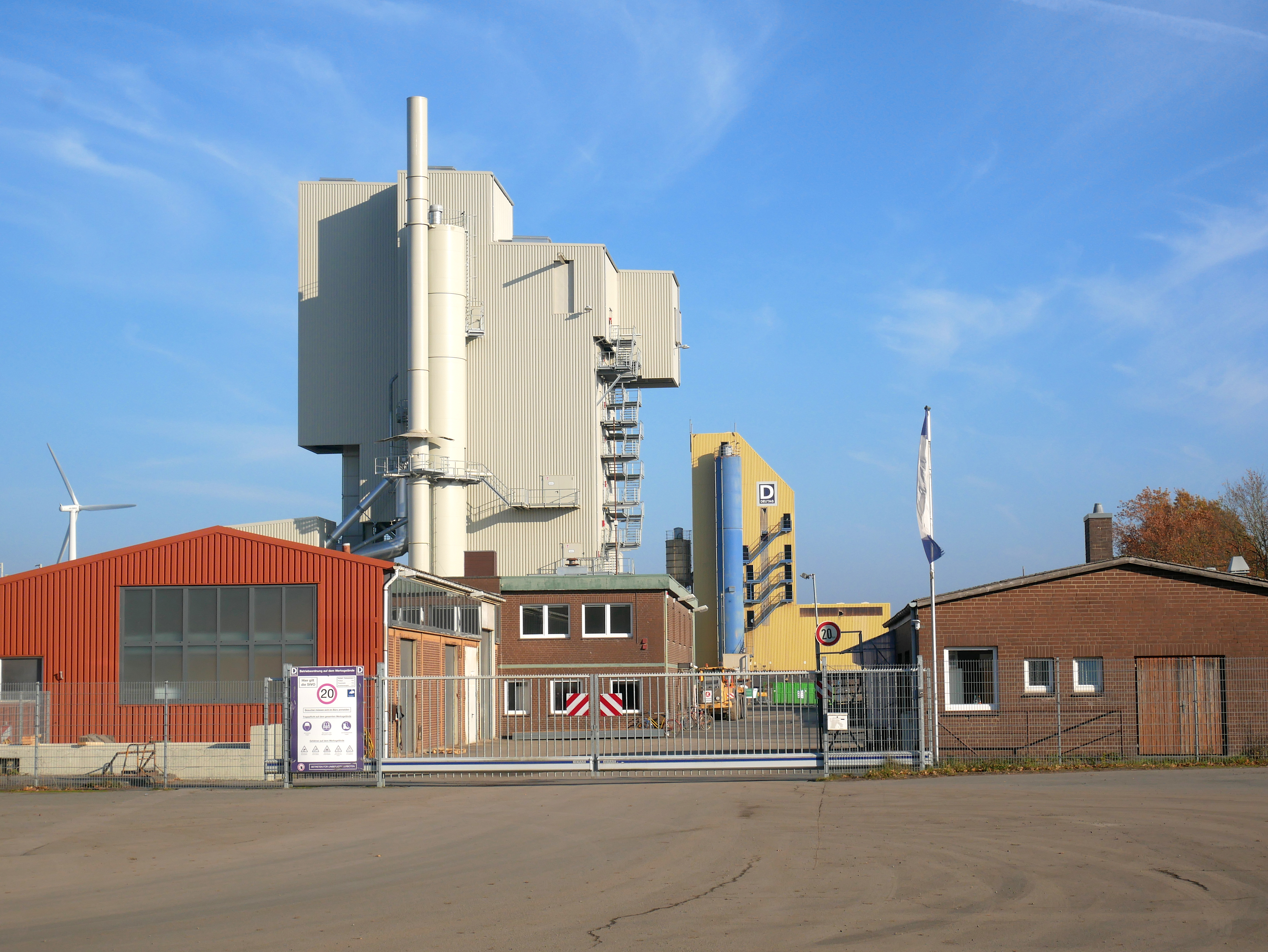 Asphalt plant in Soltau, Lower Saxony, Germany